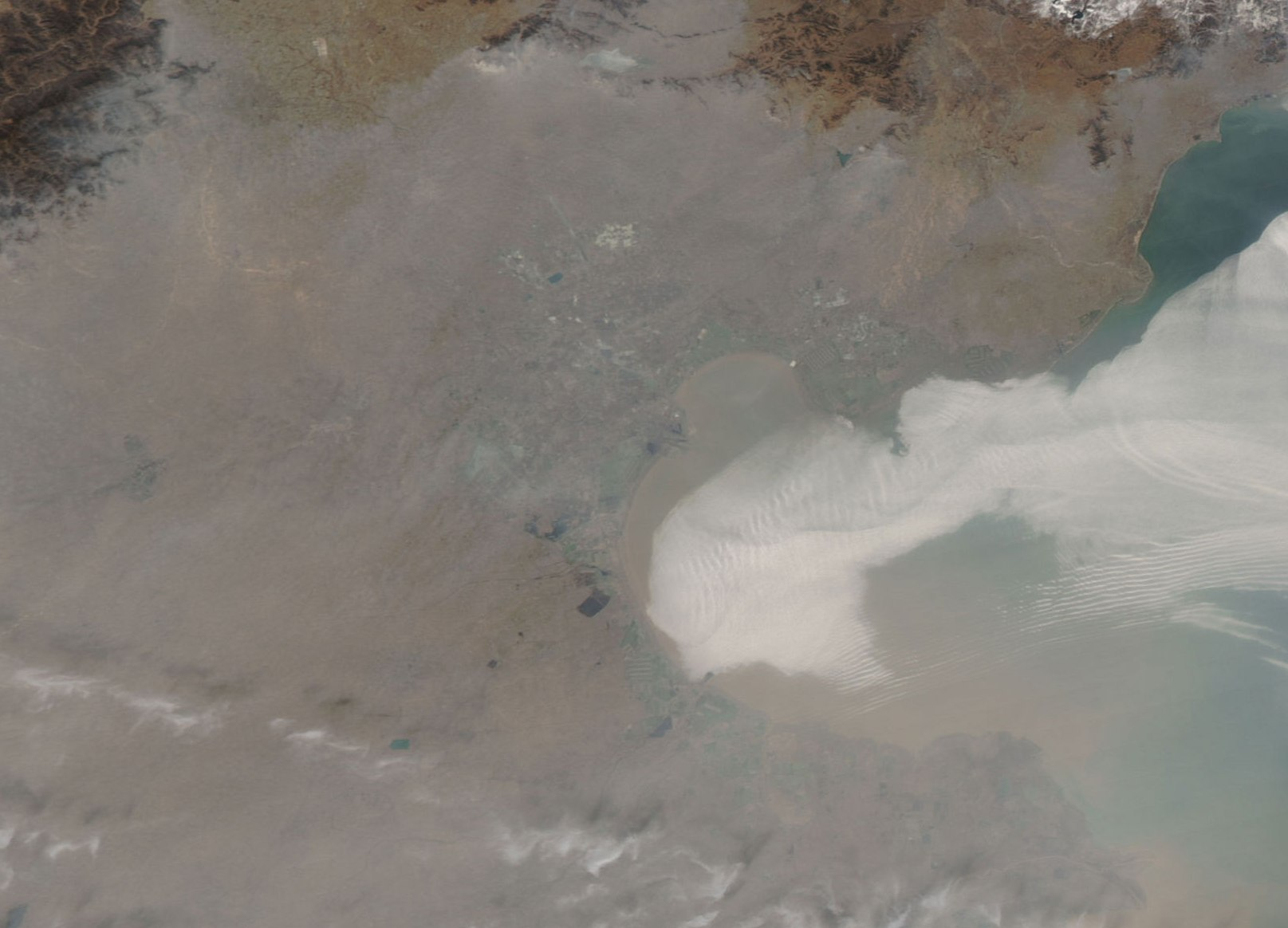 Satellite image of air pollution over Beijing. Thick sediment likewise clouds the waters of Bo Hai, immediately to the southeast of the city. Only a band of white clouds contrasts with the rest of the image.